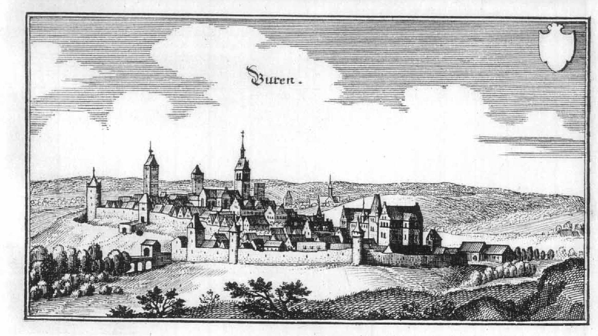 This is a scan of the historical document